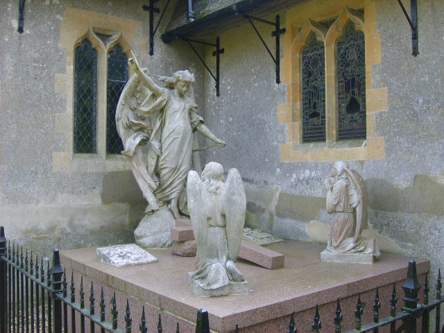 Monument to Caroline de Chassiron, grand-daughter of Joachim Murat et Caroline Bonaparte, great-niece of Napoleon Bonaparte, in All Saints' parish churchyard, Ringsfield, Suffolk